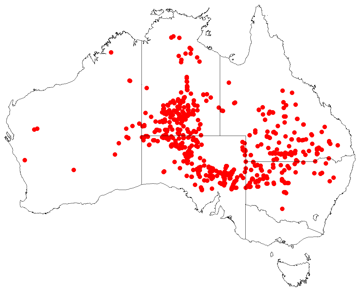 Australian distribution of Amyema maidenii based on download from Australasian Virtual Herbarium May 9, 2018